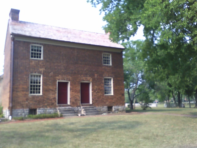 Bowen-Campbell House as it stands in the summer of 2007.